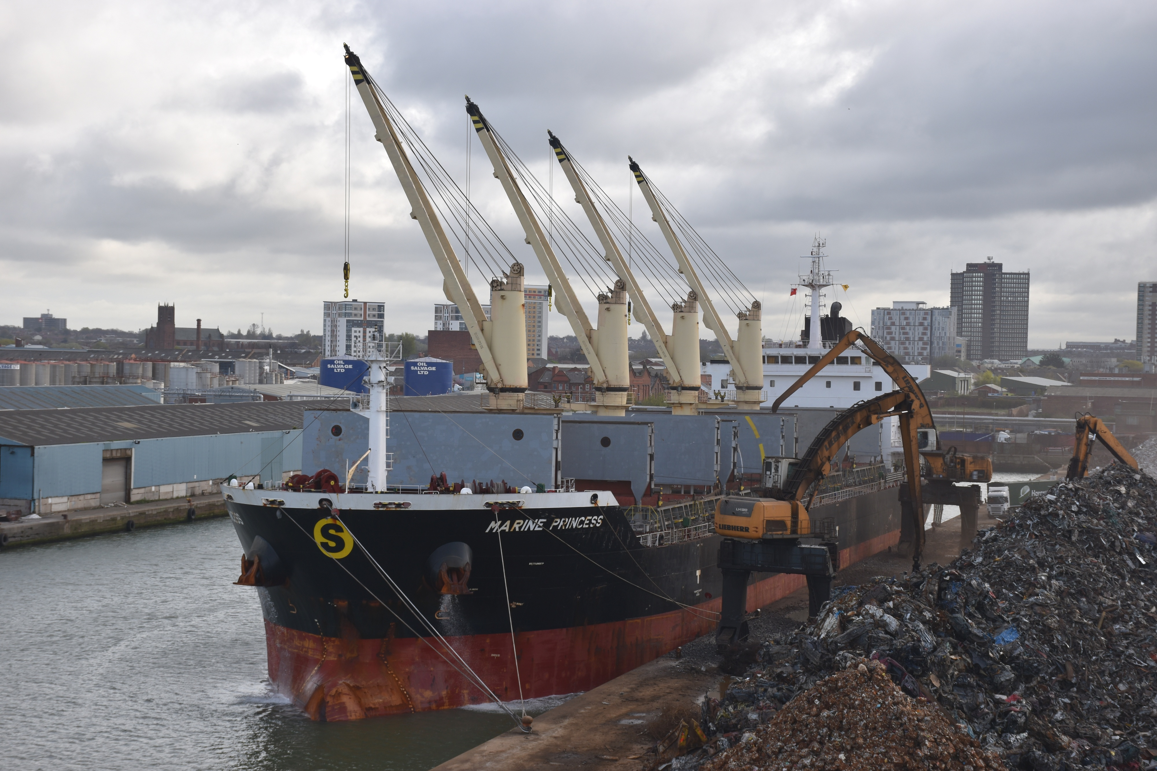 The bulk carrier Marine Princess seen loading scrap metal at Alexandra Dock, Liverpool, 11th April of 2017.